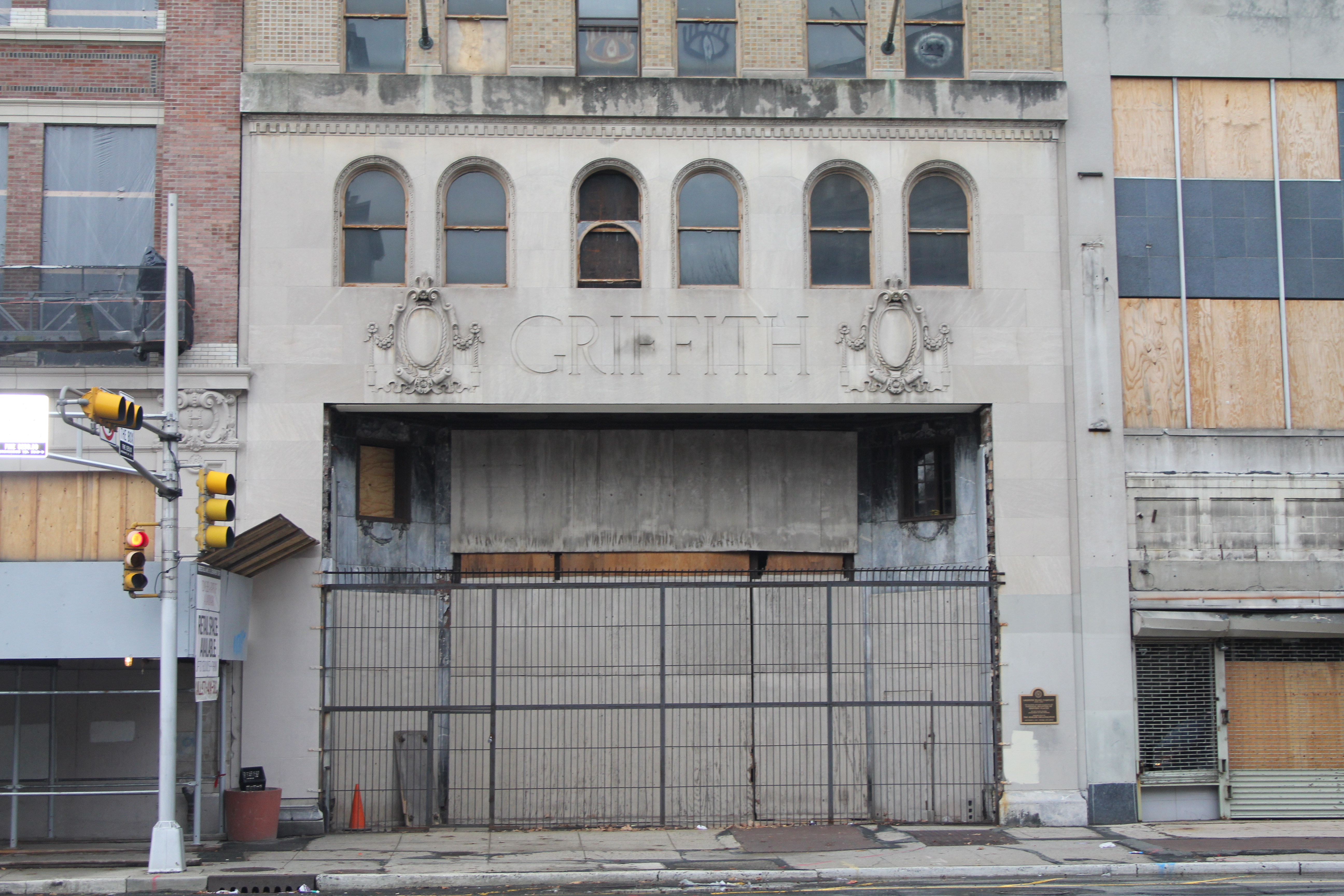 Griffith Building at 605 Broad Street, Newark, New Jersey. Constructed 1927 for the Griffith Piano Company. George Elwood Jones, architect. Listed on National Register of Historic Places (NRIS #84002641). Entryway detail.